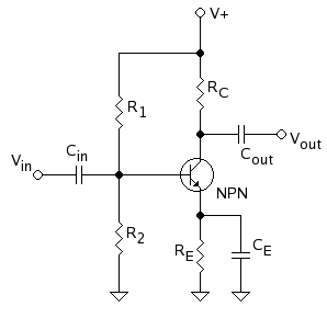 Common emitter amplifier.